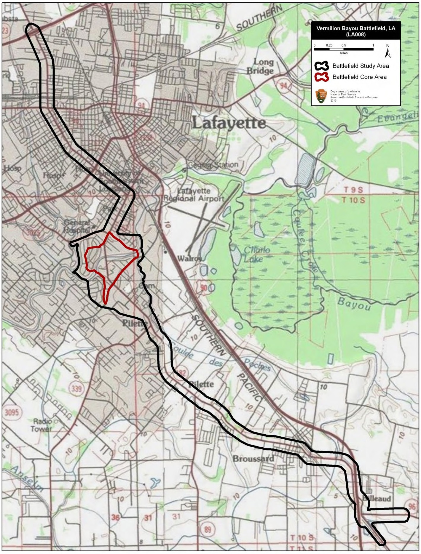 Map of battlefield core and study areas. The ABPP made substantial changes to the 1993 boundaries. The revised Study Area includes the routes of Federal advance on each side of the Bayou Teche and up the Southern Pacific rail line. The Confederate line of retreat to Opelousas was also added. The Core Area was revised to more accurately represent the primary area of fighting.